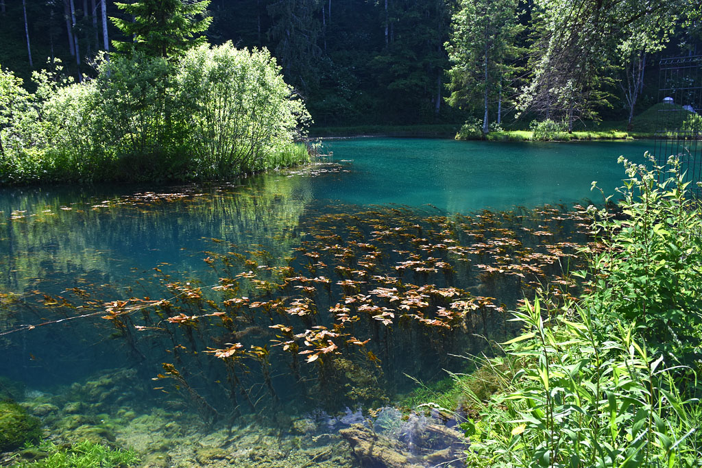 Rakitnica has a source near Dolenja vas, there it forms a small lake.